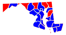 County Results of the Maryland senate election 2004